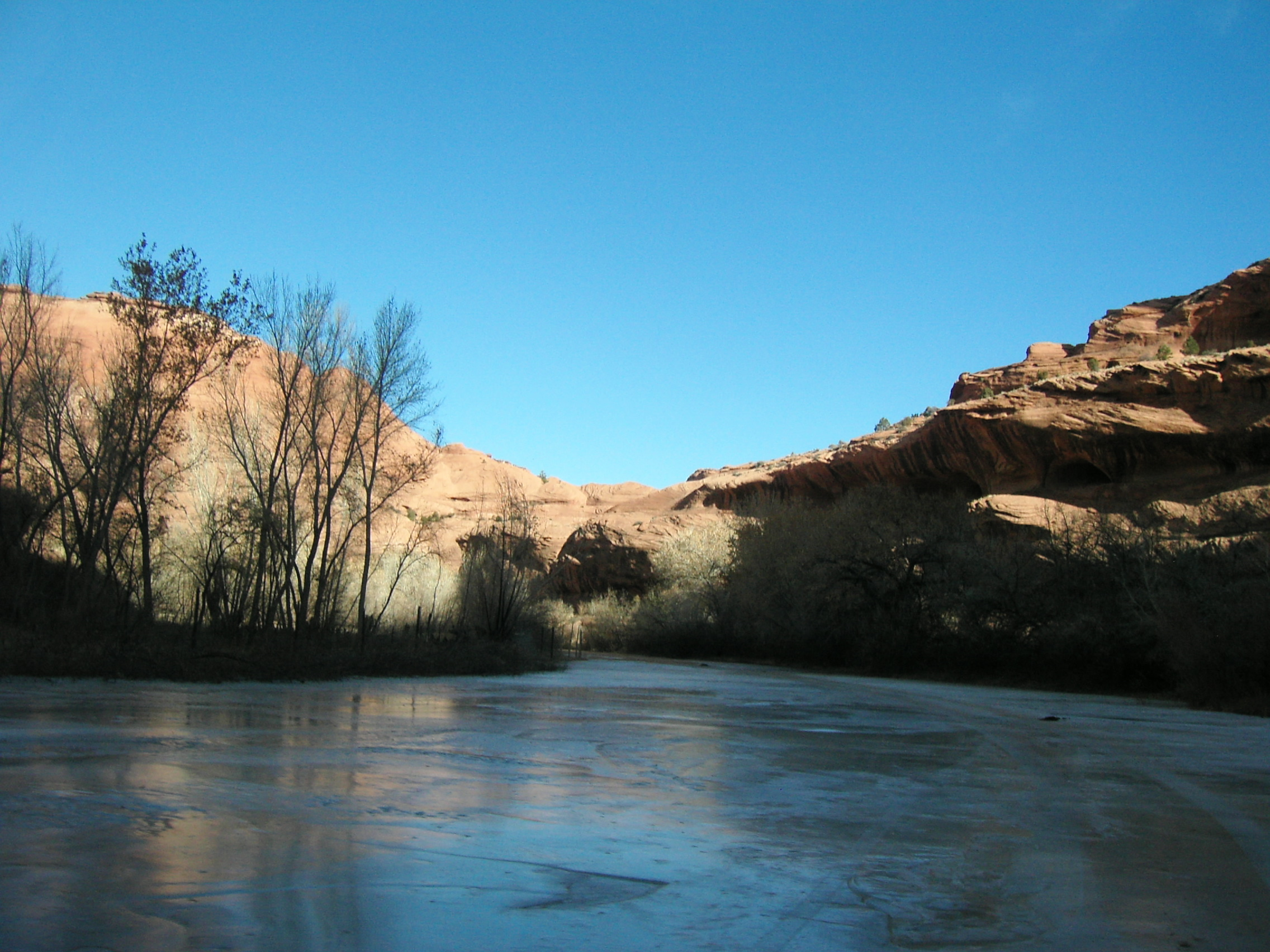 This is the frozen Chinle Wash in Canyon de Chelly National Monument. Originally posted to Flickr